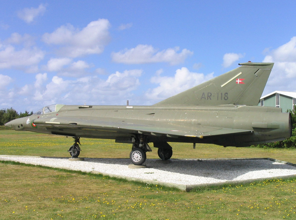 Danish air force J-35 Draken at the Stauning areal museum